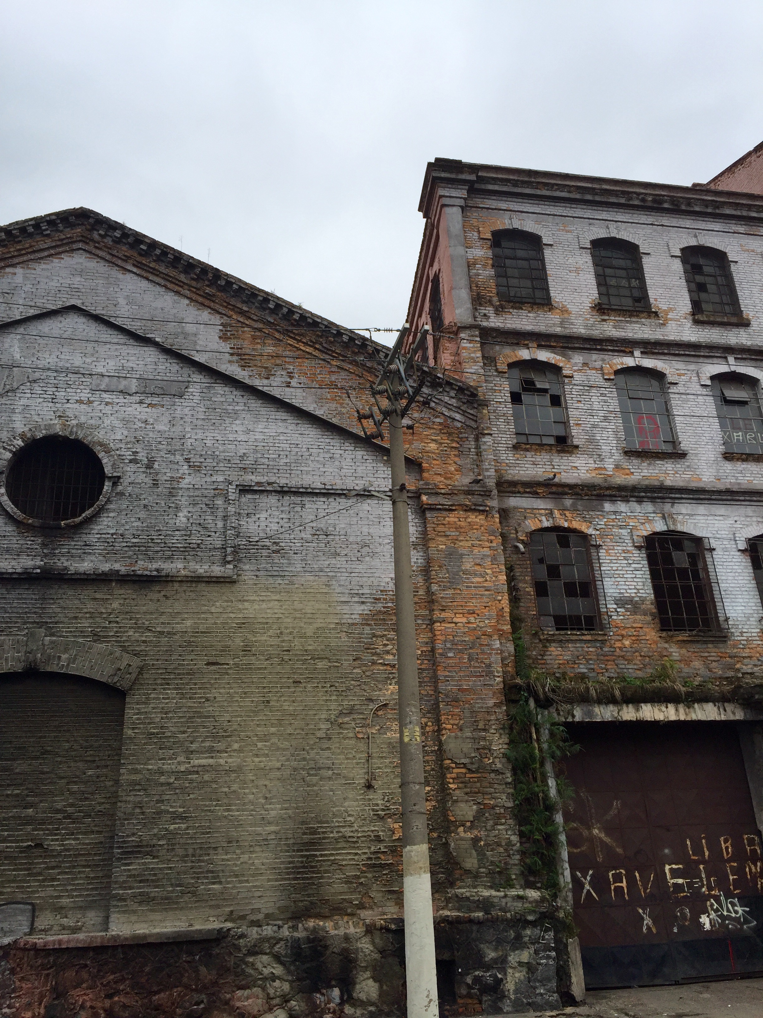 Matarazzo Mill west facade entrance in Street Monsenhor Andrade, São Paulo, Brazil.